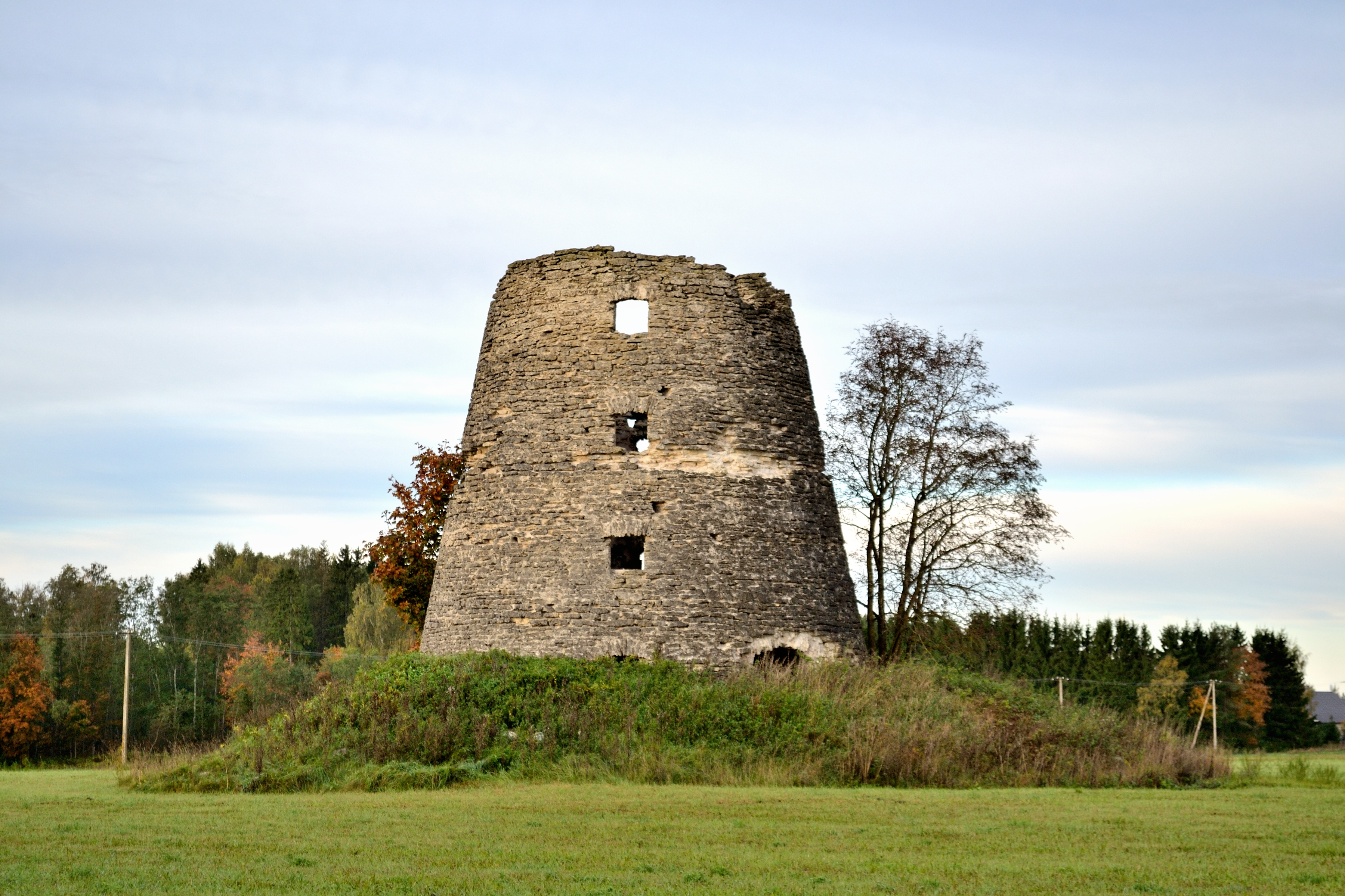 Ruins of Keava manor windmill